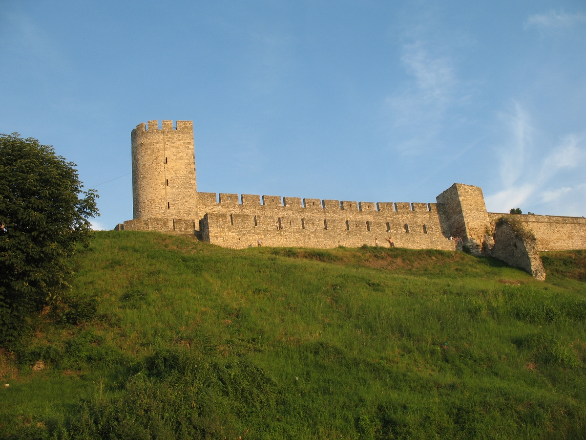 North wall of Belgrade fortress with Despots tower, Serbia.